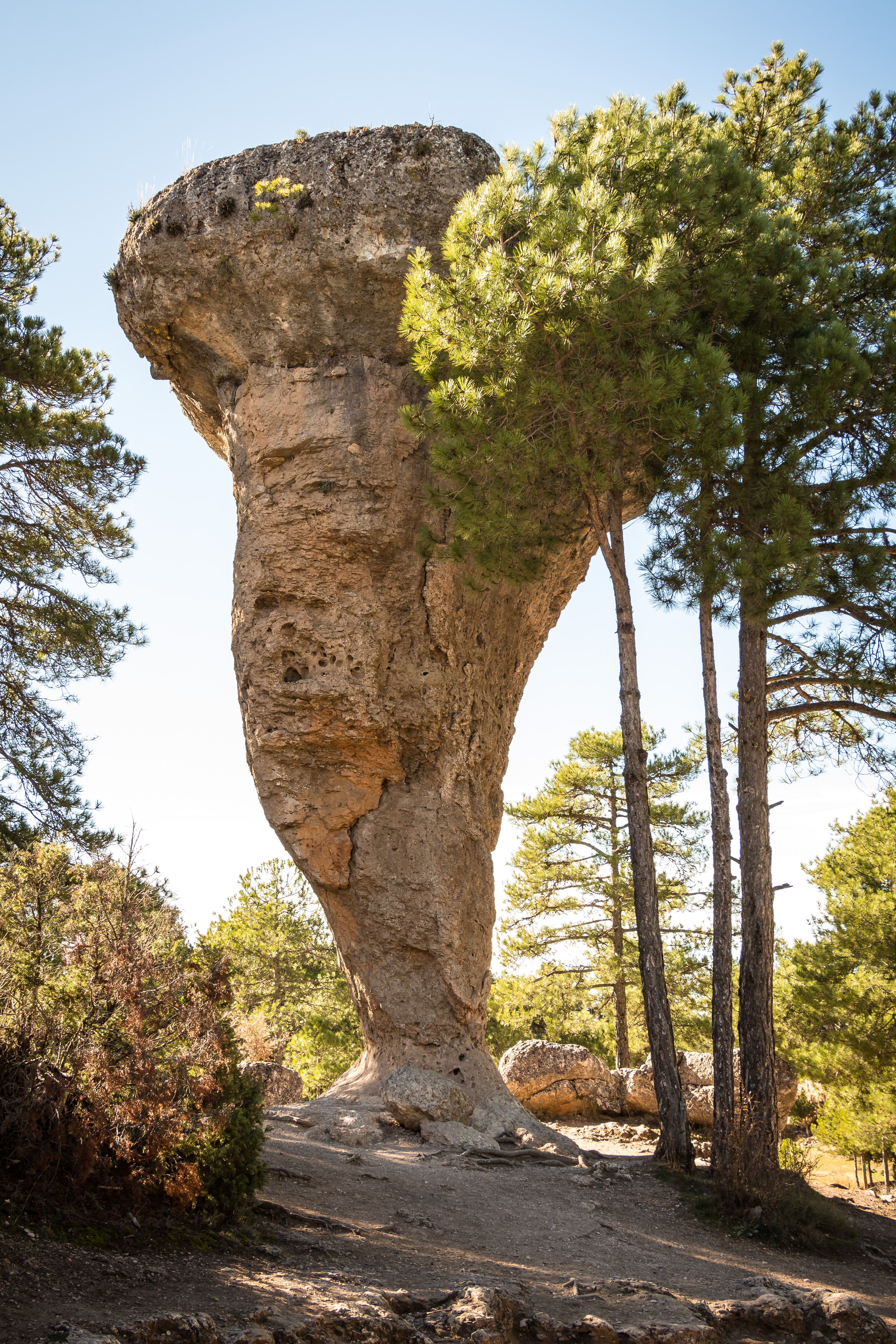 This is a photography of a Special Area of Conservation in Spain with the ID: ES4230014. Natura2000 entry, EEA entry